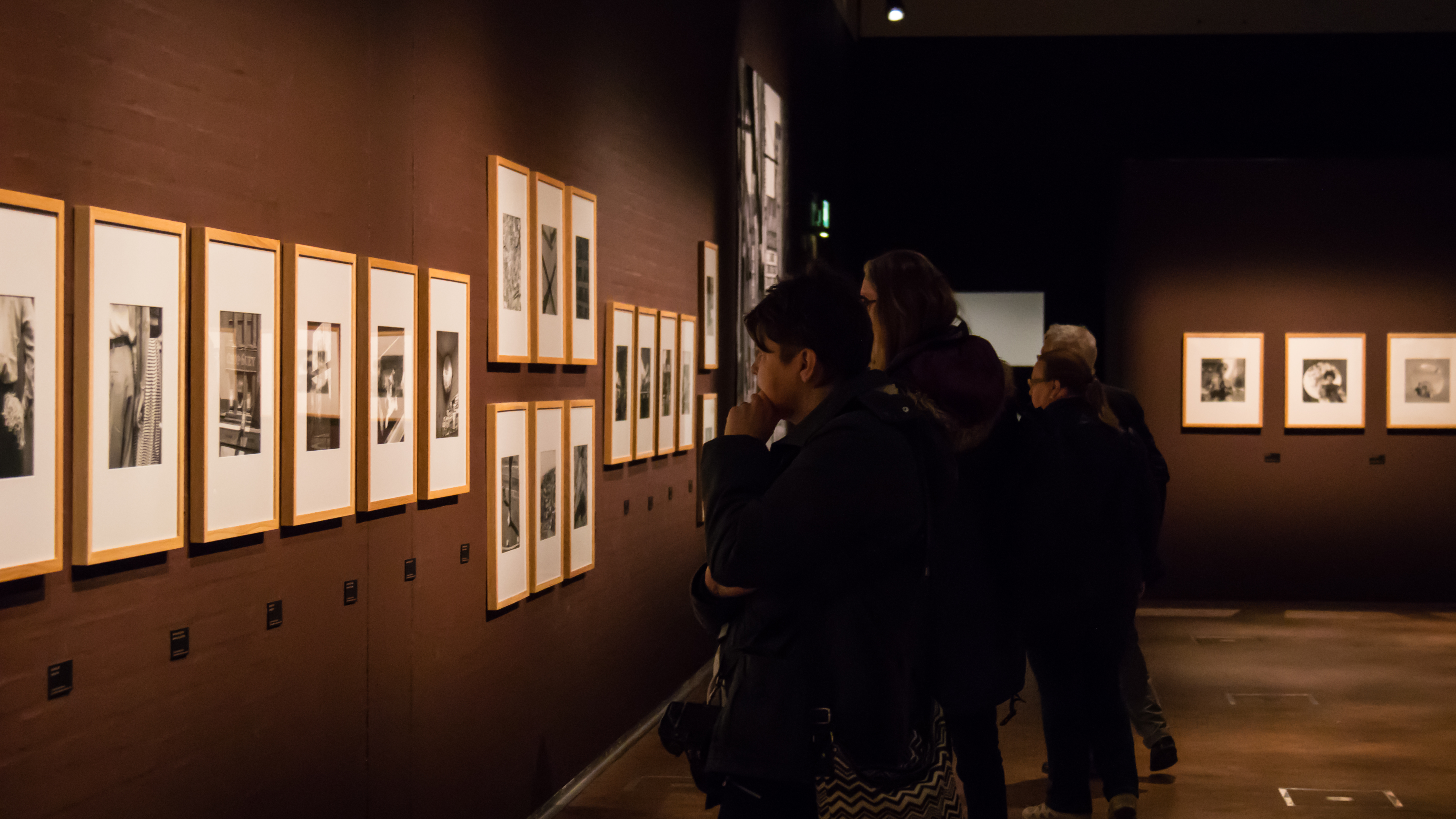 Visited an exibihition with Vivian Maiers photography at Dunkers Kulturhus in Helsingborg.